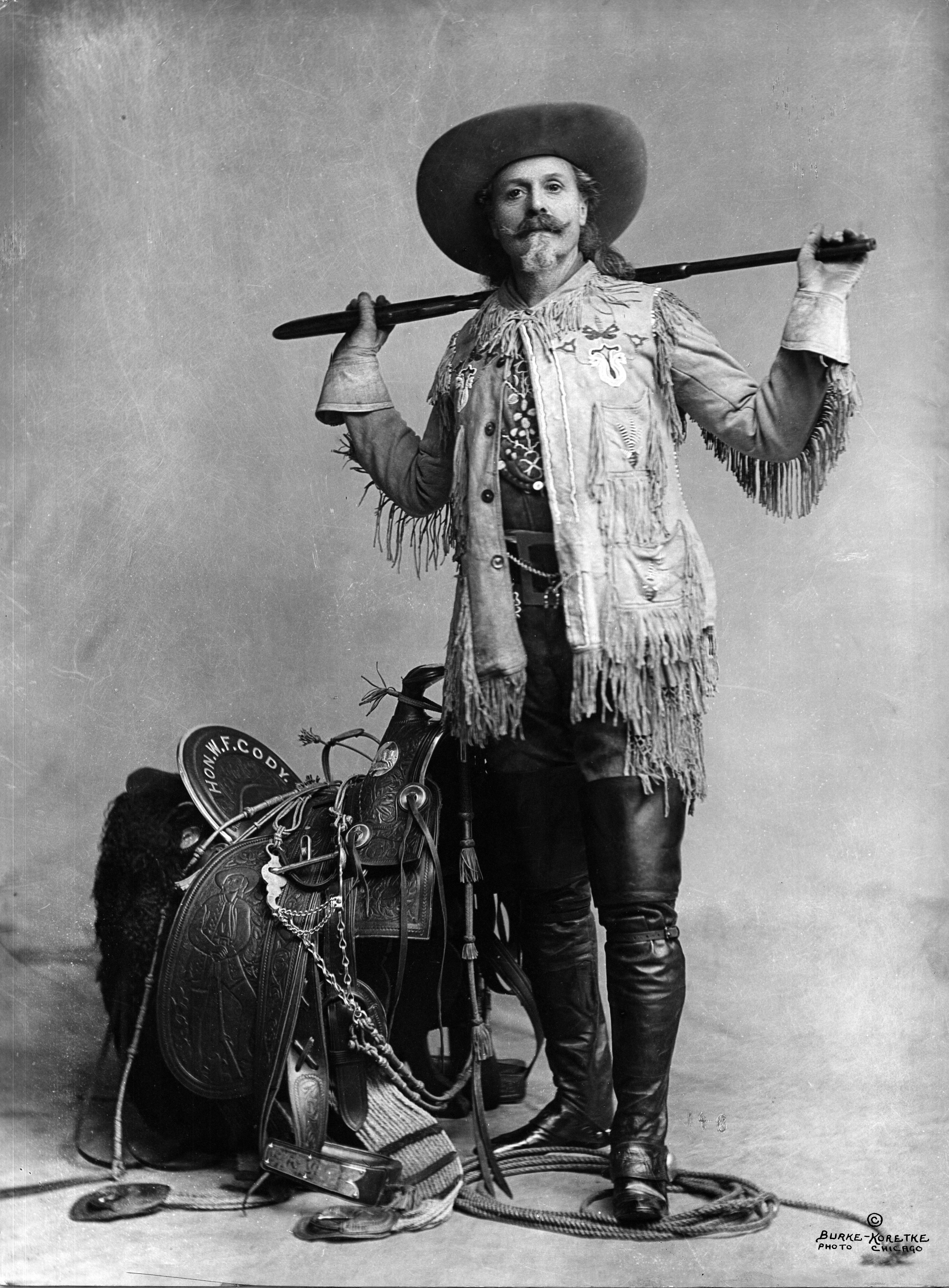 Buffalo Bill Cody with a rifle across both shoulders.